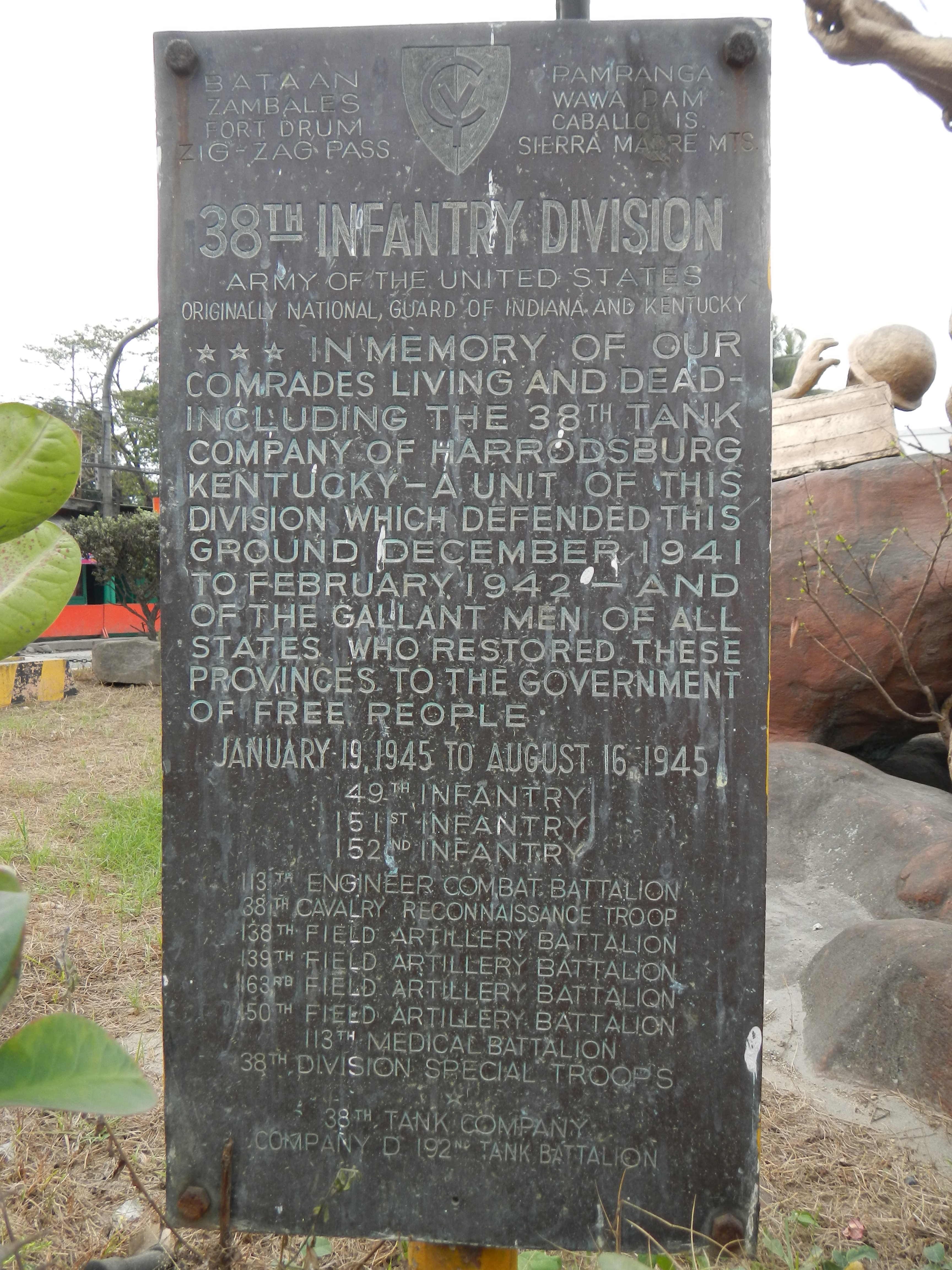 Dinalupihan, Bataan[1][2]